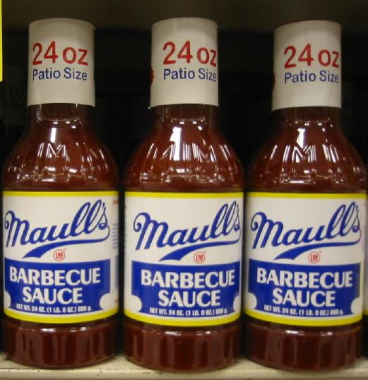 Three 24 oz bottles of Maull's original Saint Louis style barbecue sauce.